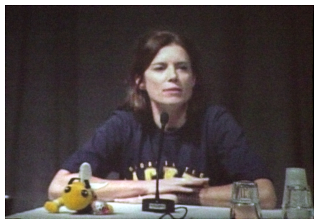 Torri Higginson at Dragon Con 2006